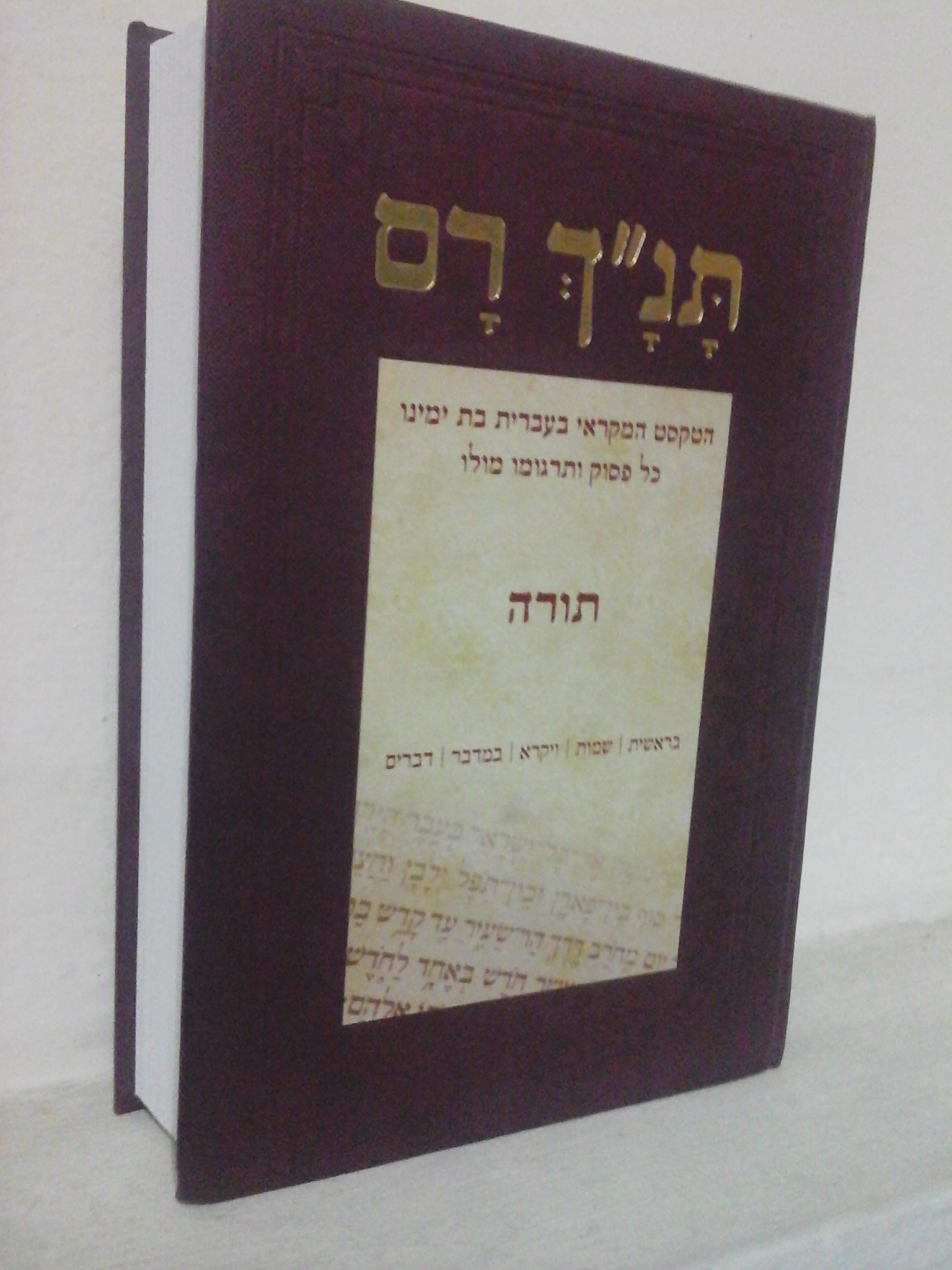 Image of the I volume of the Tanakh Ram (Torah).